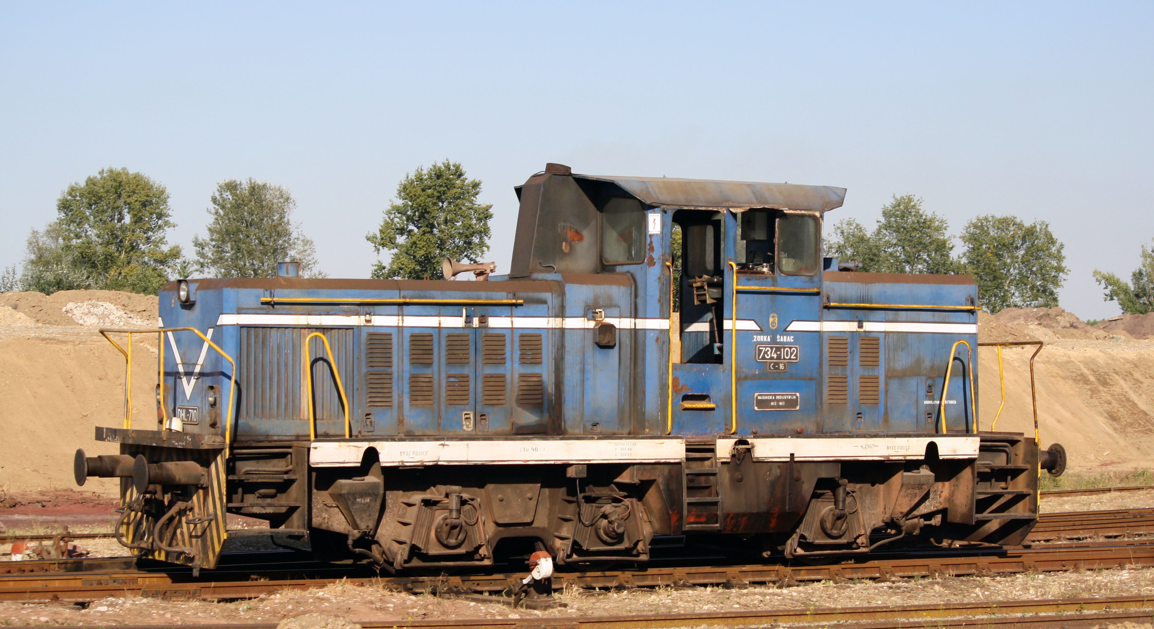 MIN class 734 diesel locomotive of Zorka Šabac.